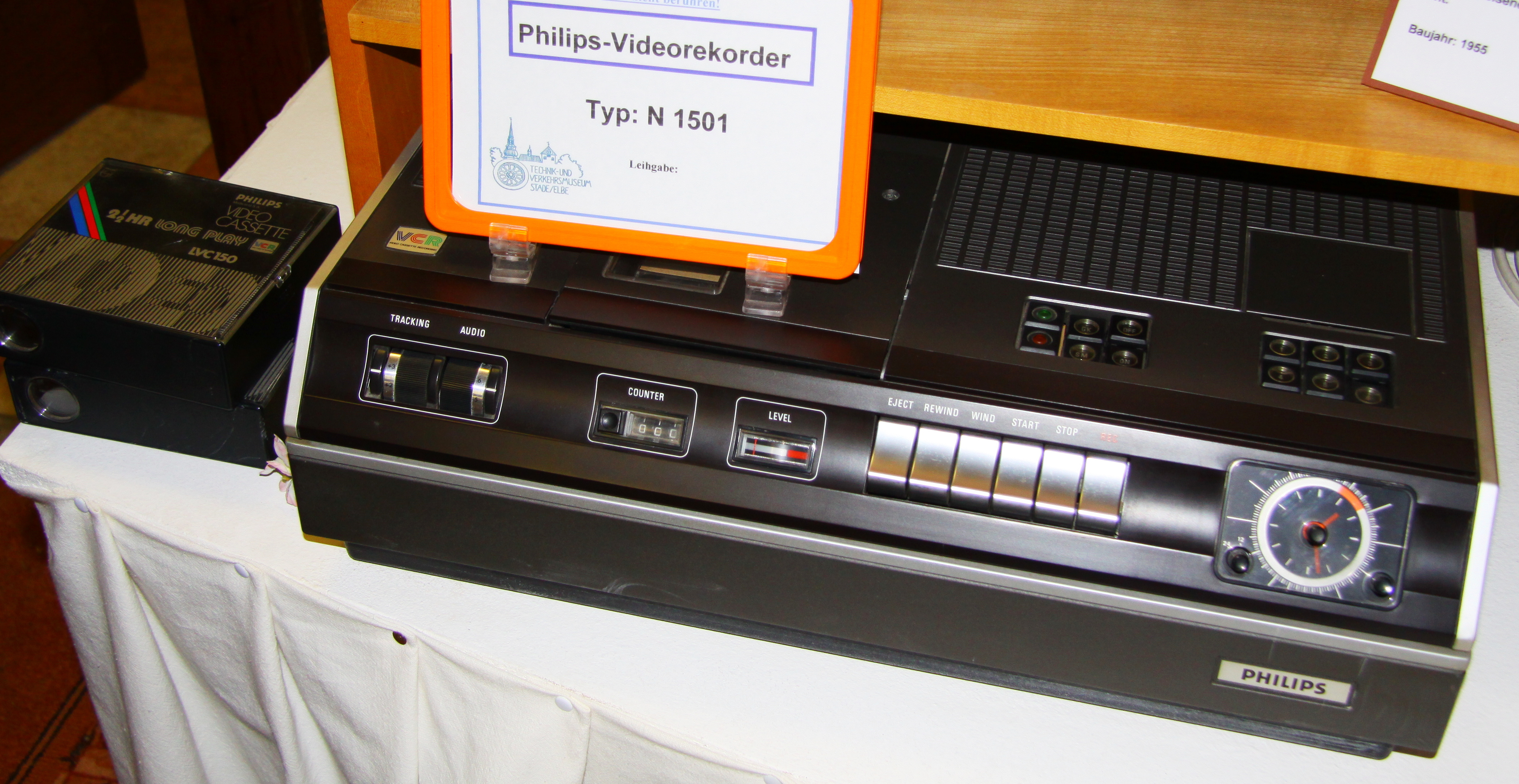 1970s Philips N 1501 VHS recorder in the TuVM Stade